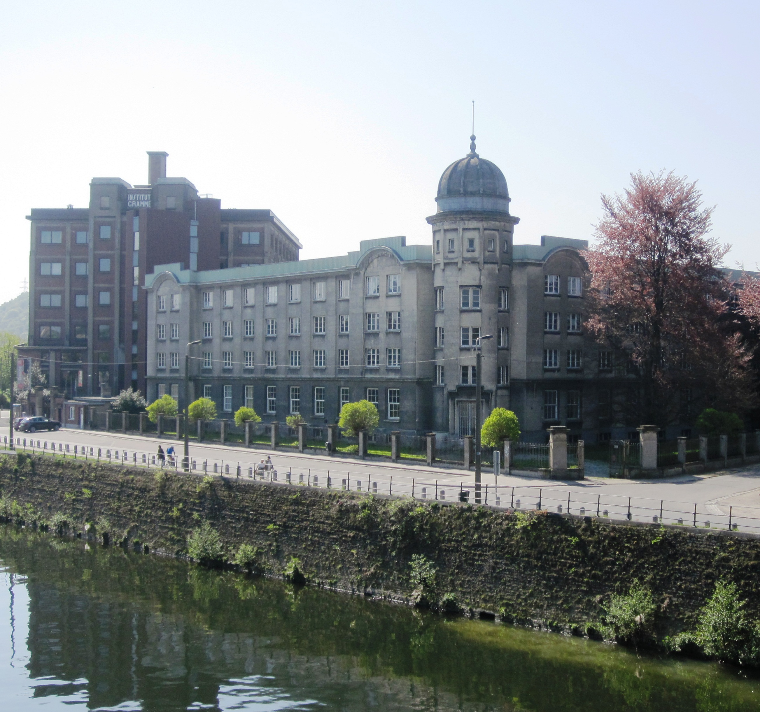 Helmo Gramme